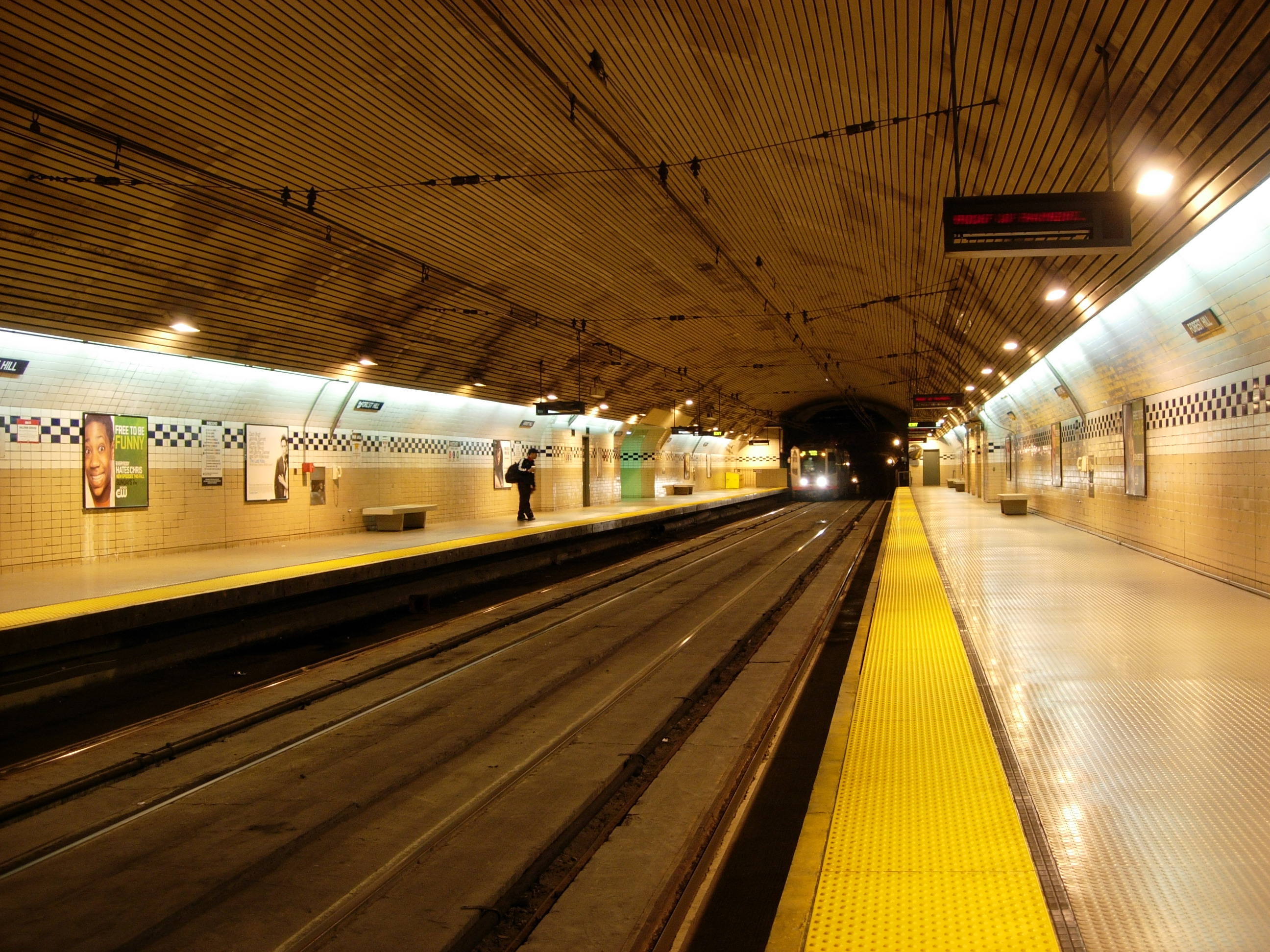 Outbound M Ocean View arriving at Forest Hill Station. The platform's tile walls and circular ceiling are reminiscent of many stations on the London Underground. Taken on 9/2/2006 by senor_k.